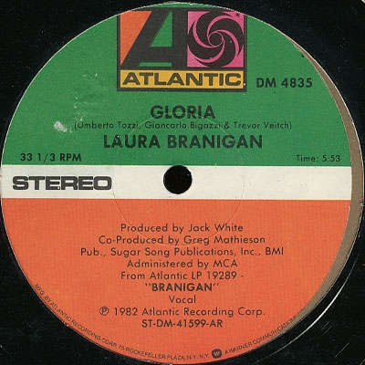 Side-A label of "Gloria" by Laura Branigan; U.S. 12-inch vinyl edition